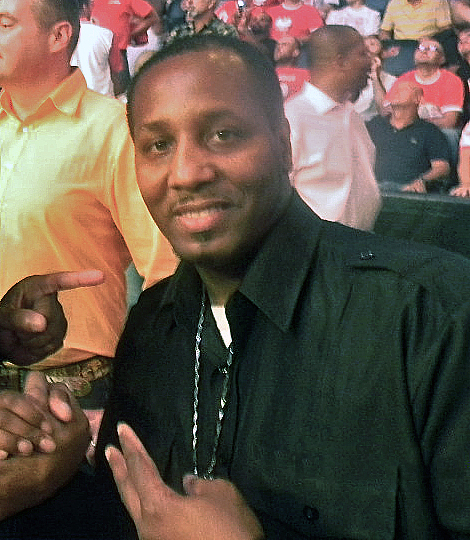 Junior Jones ringside for Tomas Adamek versus Michael Grant at Prudential Center, August 21, 2010